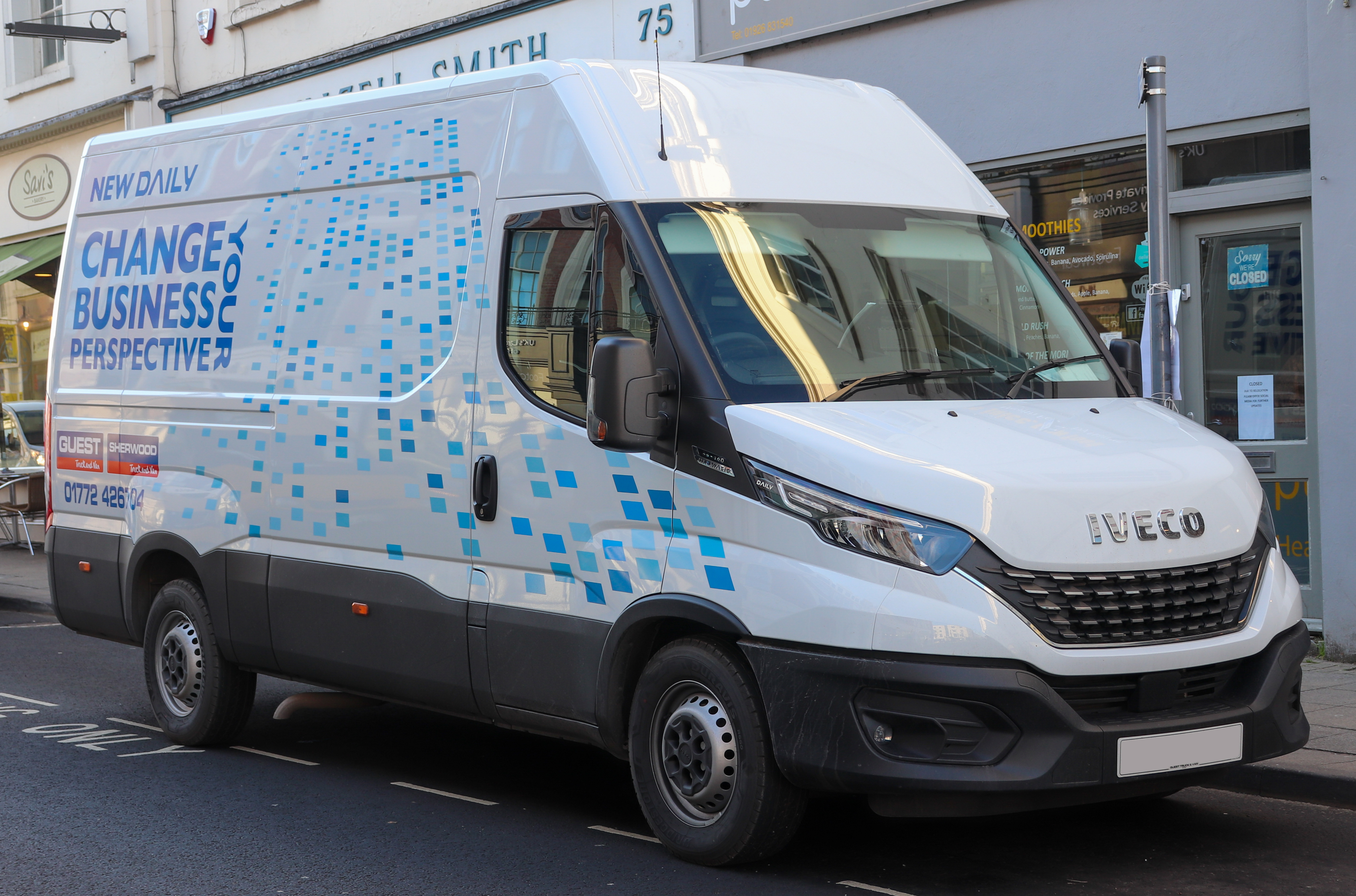 2020 Iveco Daily Hi-Matic 2.3 Front Taken in Leamington Spa